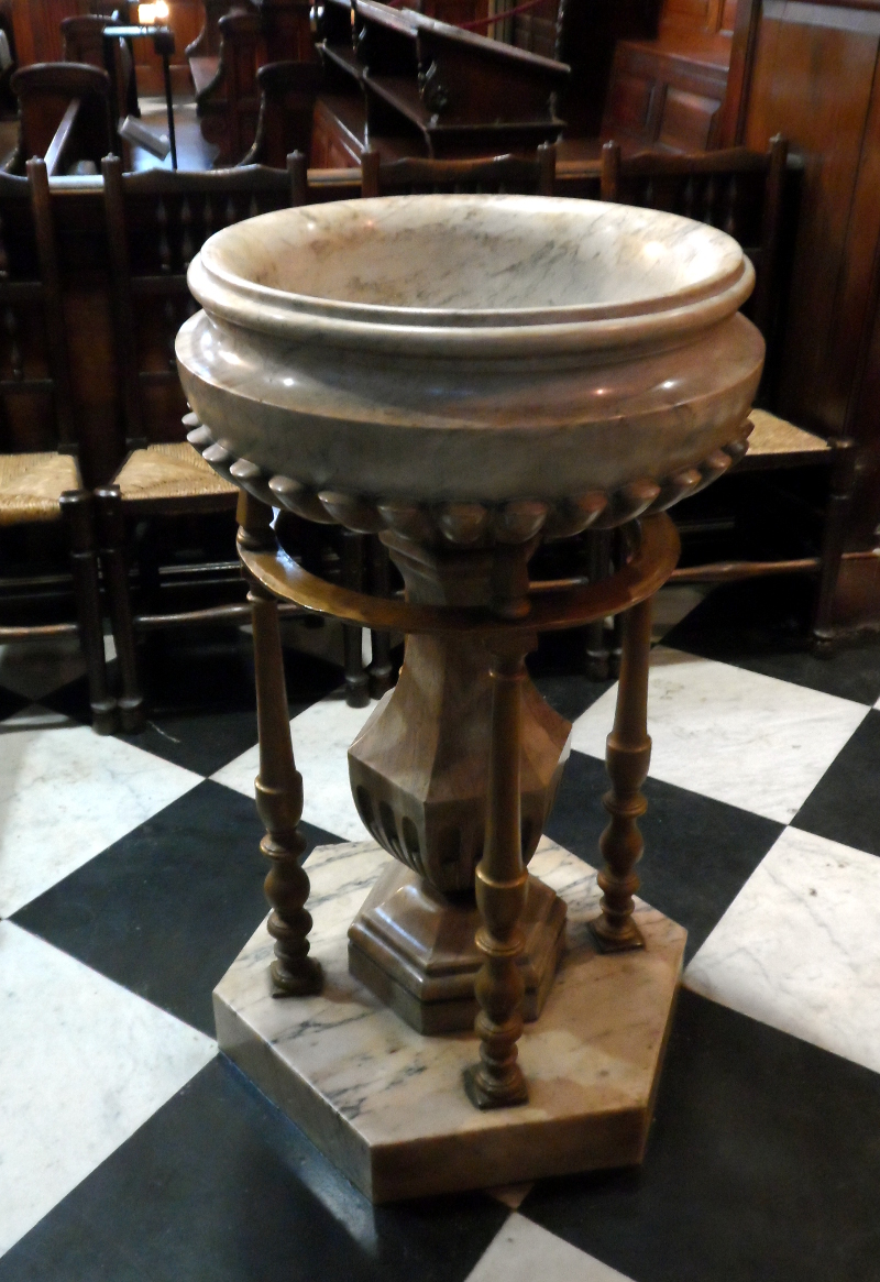 Font, St Botolph-without-Bishopsgate, London